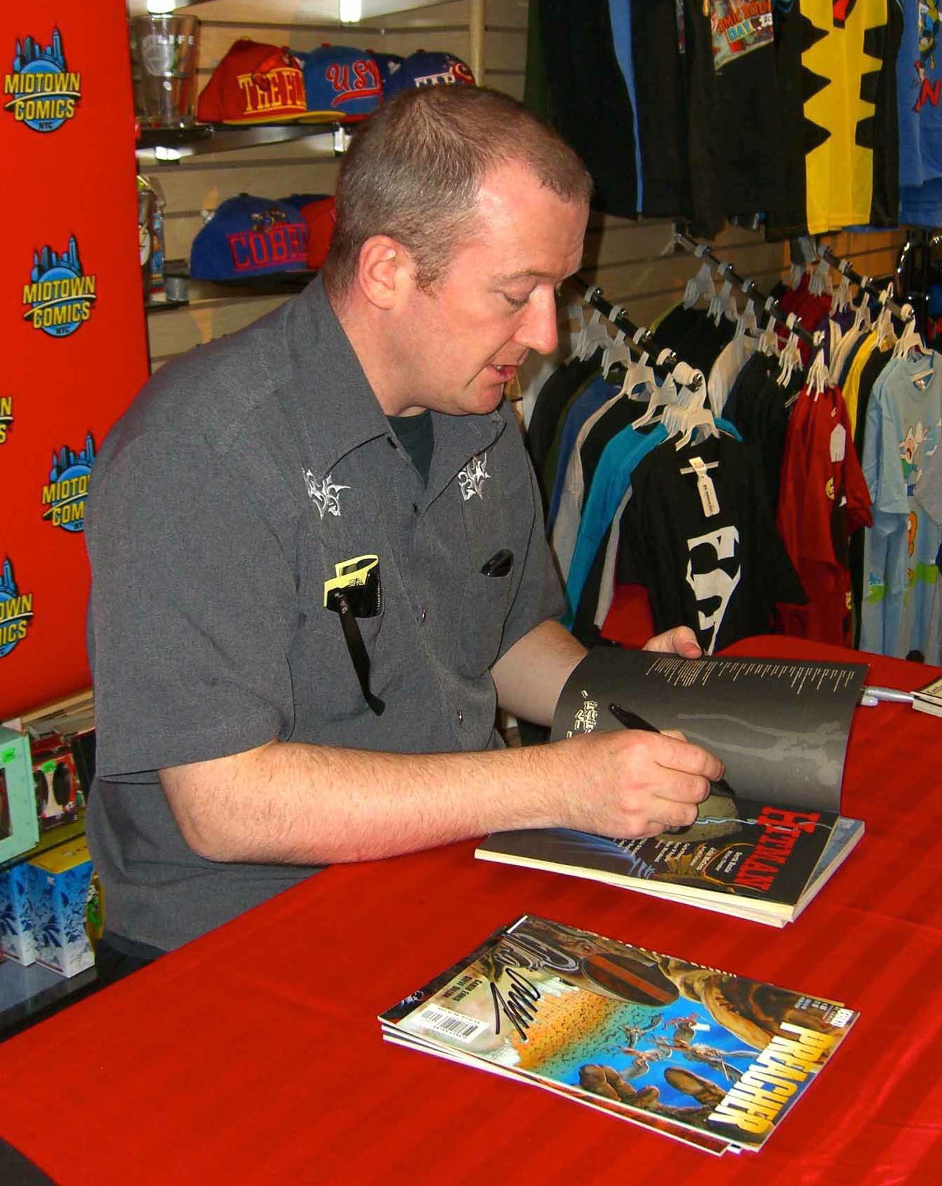 Writer Garth Ennis at an April 19, 2012 signing for The Shadow (volume 5) #1 at Midtown Comics Downtown in Manhattan. This photo was created by Luigi Novi. It is not in the public domain, and use of this file outside of the licensing terms is a copyright violation.